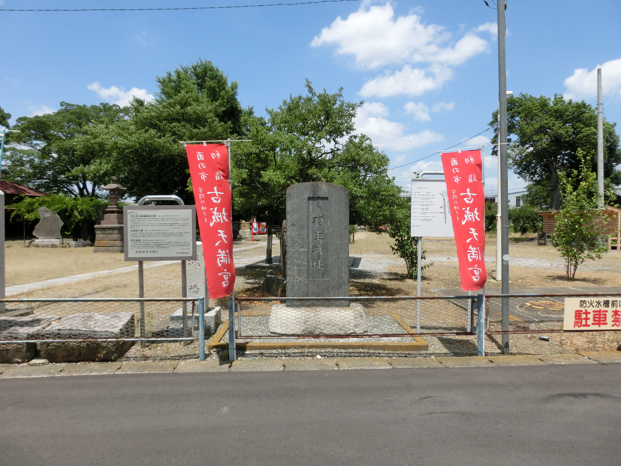 Ruins of Hanyu Castle